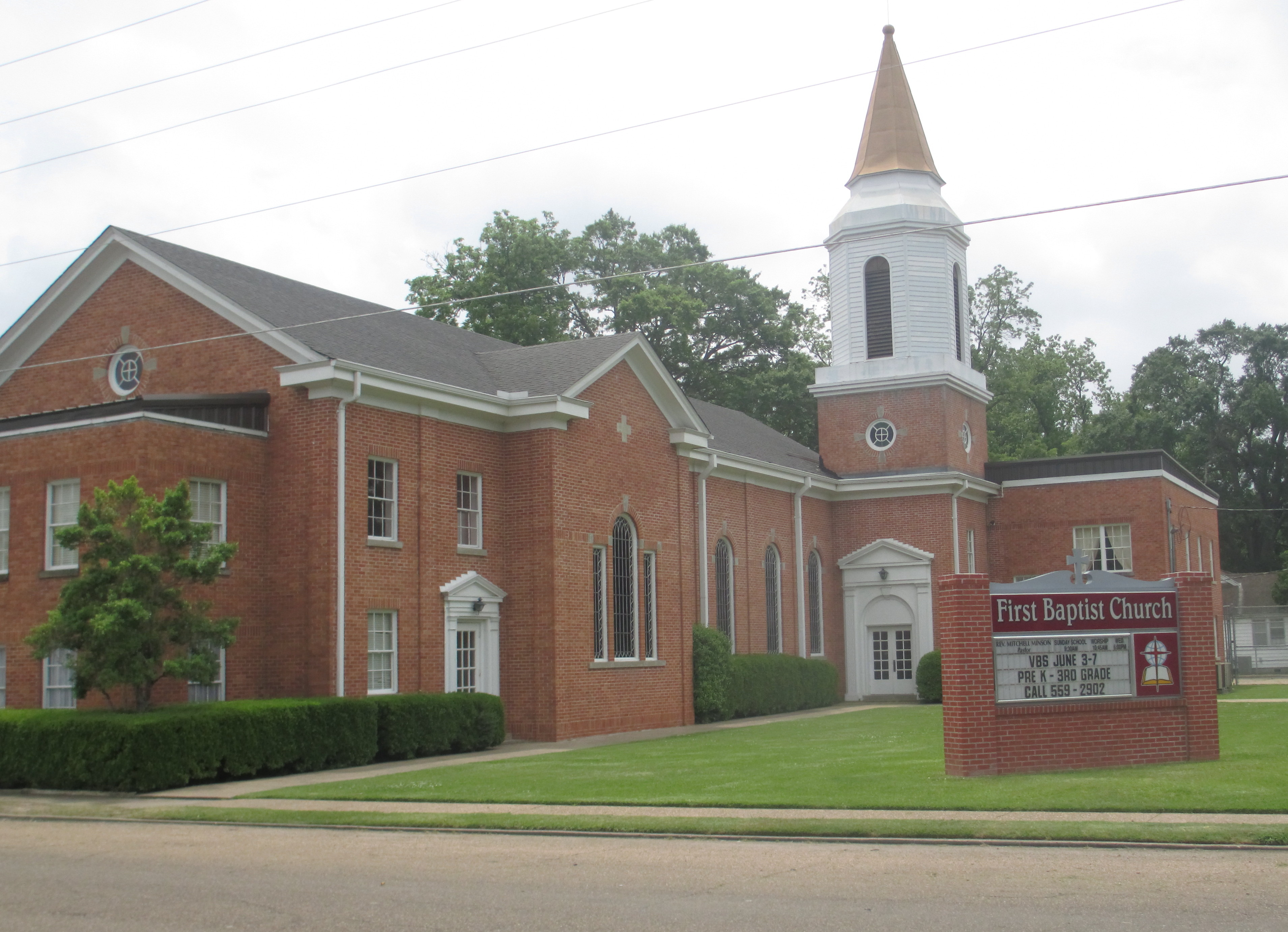 I took photo with Canon camera of First Baptist Church of Lake Providence, LA. Revised copy i